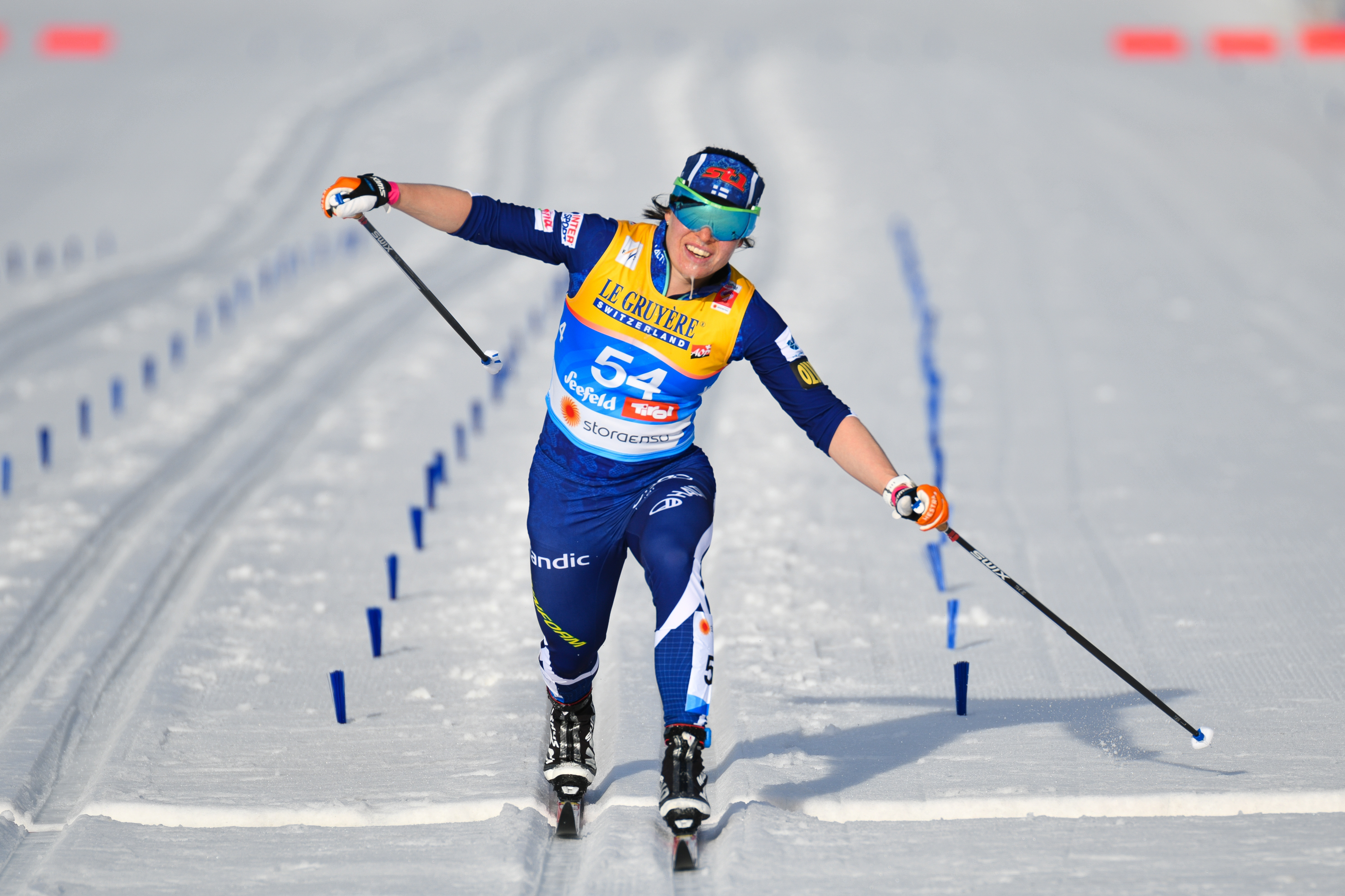 FIS Nordic Wolrd Ski Championships Seefeld 2019 - Ladies Cross Country 10km. Picture shows Krista Parmakoski (FIN).